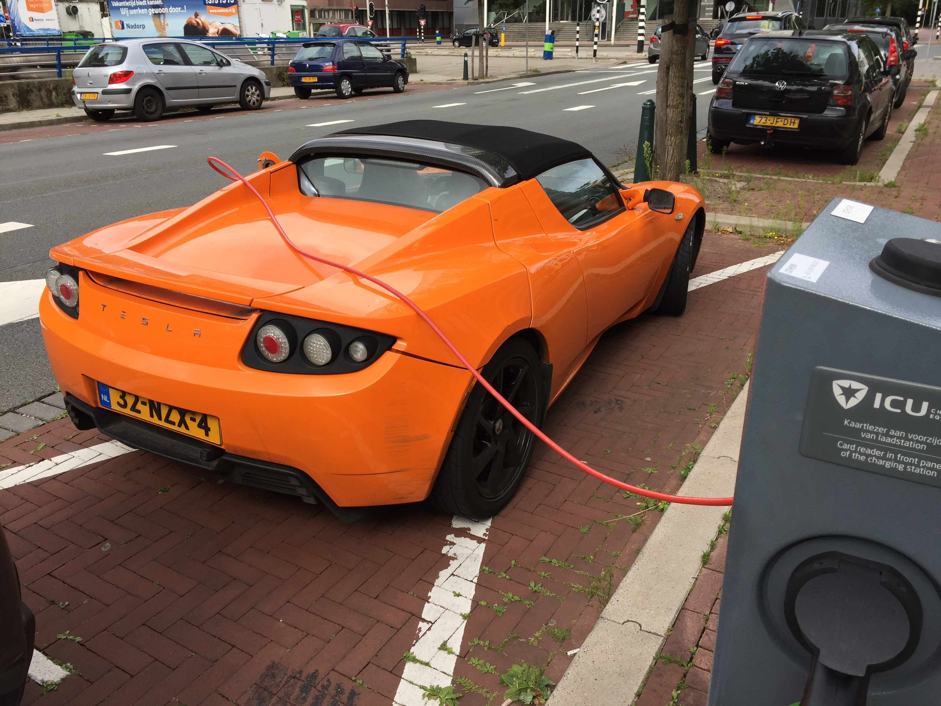 Tesla Roadster is een volledig elektrisch aangedreven sportauto ontwikkeld door Tesla Motors en gebouwd tussen 2008 en 2012. In de vier jaar dat de auto gebouwd is zijn 2500 exemplaren geleverd in 31 landen. In Nederland werden in totaal 27 Roadsters afgeleverd: 26 stuks in 2012 en nog een laatste in 2013. The Tesla Roadster is a battery electric vehicle (BEV) sports car that was produced by the electric car firm Tesla Motors (now Tesla, Inc.) in California from 2008 to 2012. The Roadster was the first highway legal serial production all-electric car to use lithium-ion battery cells and the first production all-electric car to travel more than 200 miles (320 km) per charge. A replacement for the Roadster is expected for 2019.